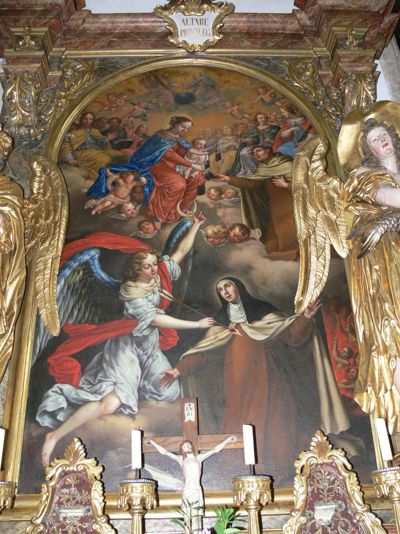 Saint Blaise parish church in Abtenau ( Salzburg ). Skapulier-Altar ( 1702 ): Altar painting by Johann Friedrich Pereth.